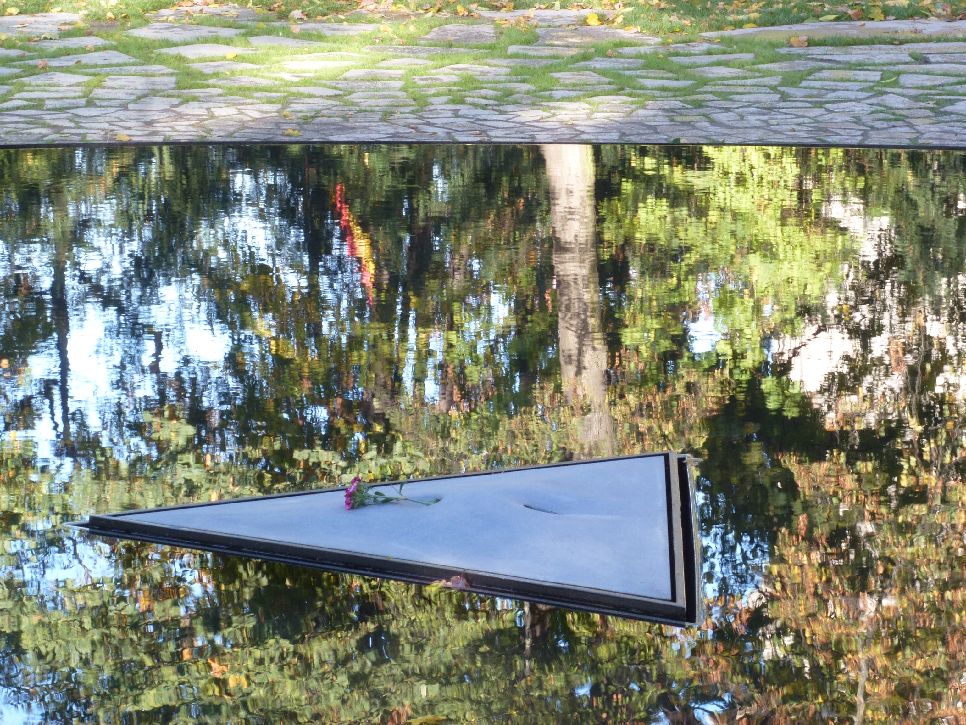 Memorial to the Sinti and Roma in Berlin-Tiergarten